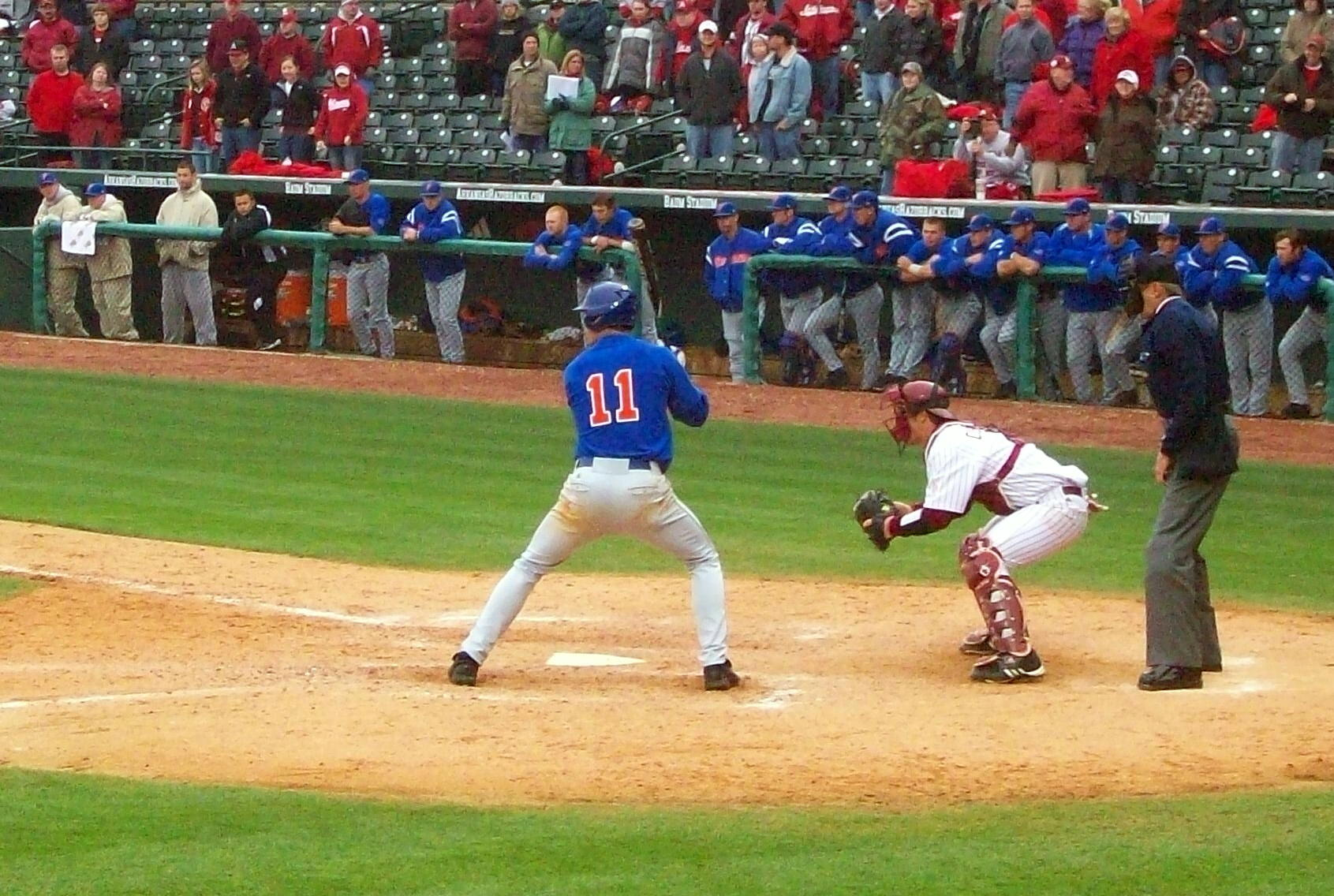 Riley Cooper batting for the Florida Gators